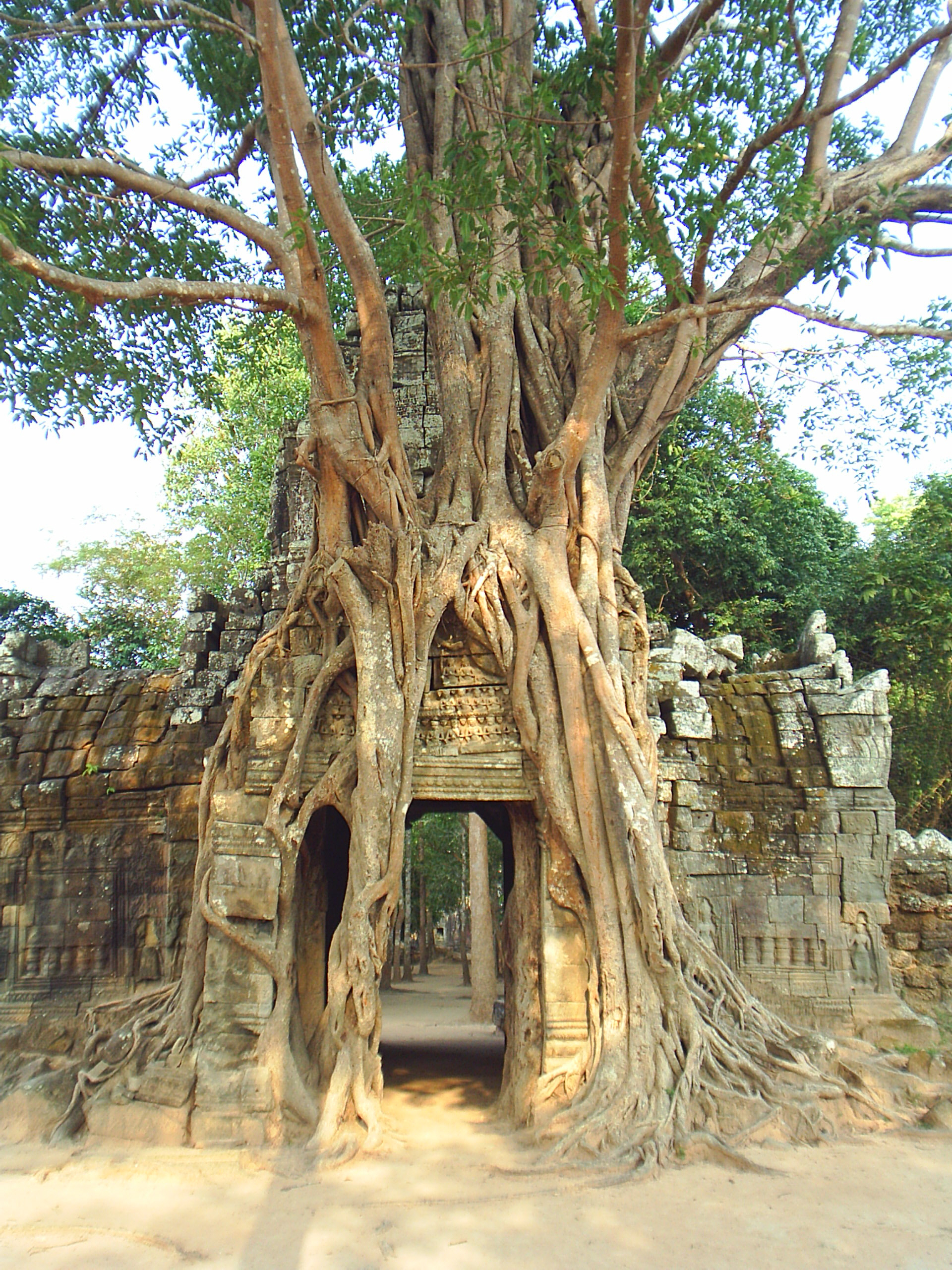 East side of the third eastern gopura, Temple of Ta Som at Angkor in Cambodia.